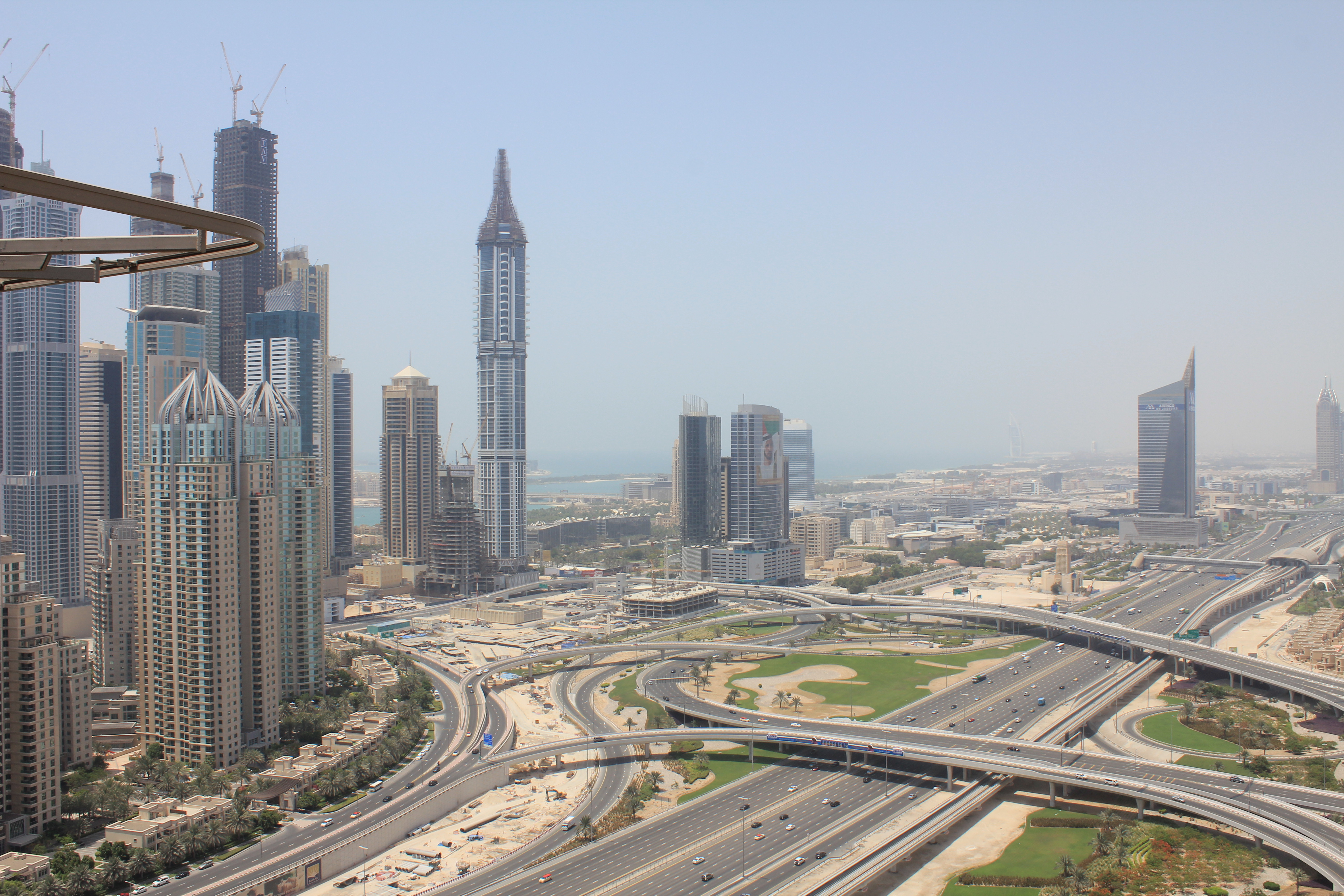 New Dubai